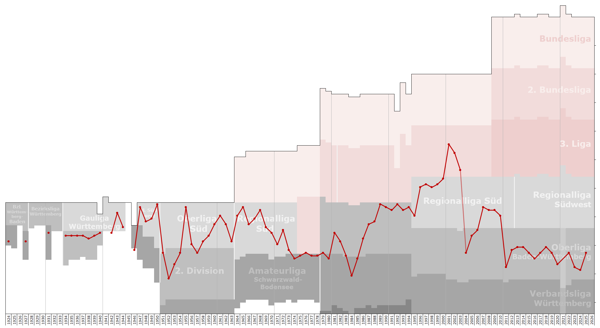 Chart of end-season table positions of SSV Reutlingen in the football league system of Germany. Data source: RSSSF, wikipedia, f-archiv.de, fussball.de